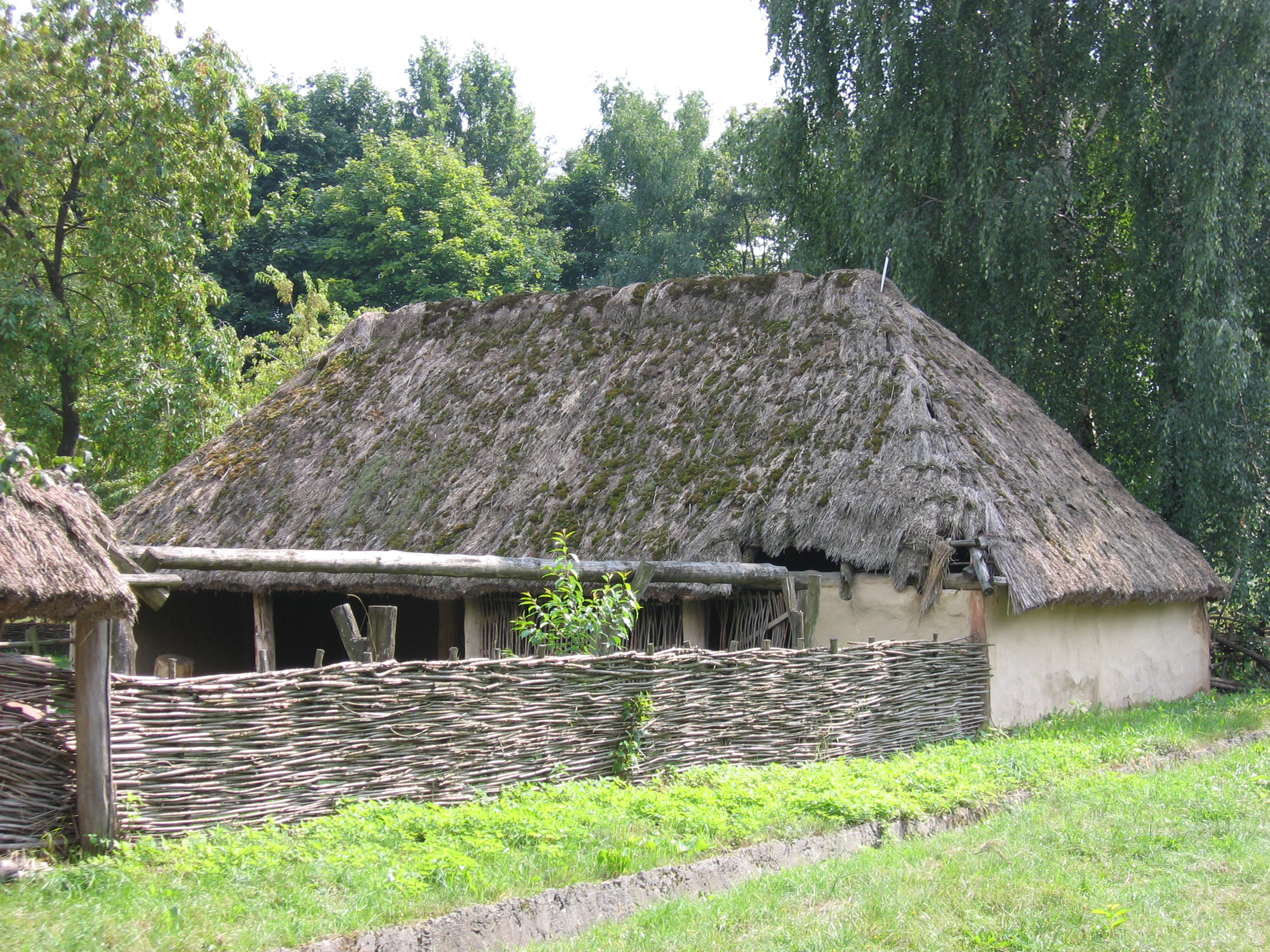 Museum of Ukrainian Folk Architecture and Ethnography in Pyrohiv (near Kiev, Ukraine)